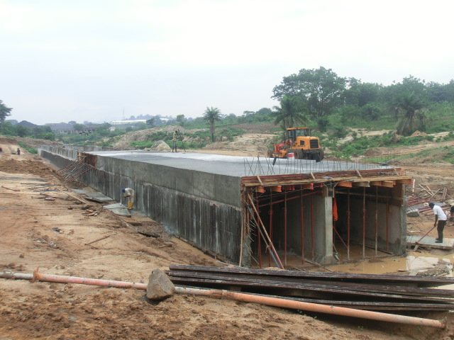 Construction of box culvert 127meters long This is an image of "African people at work" from Nigeria